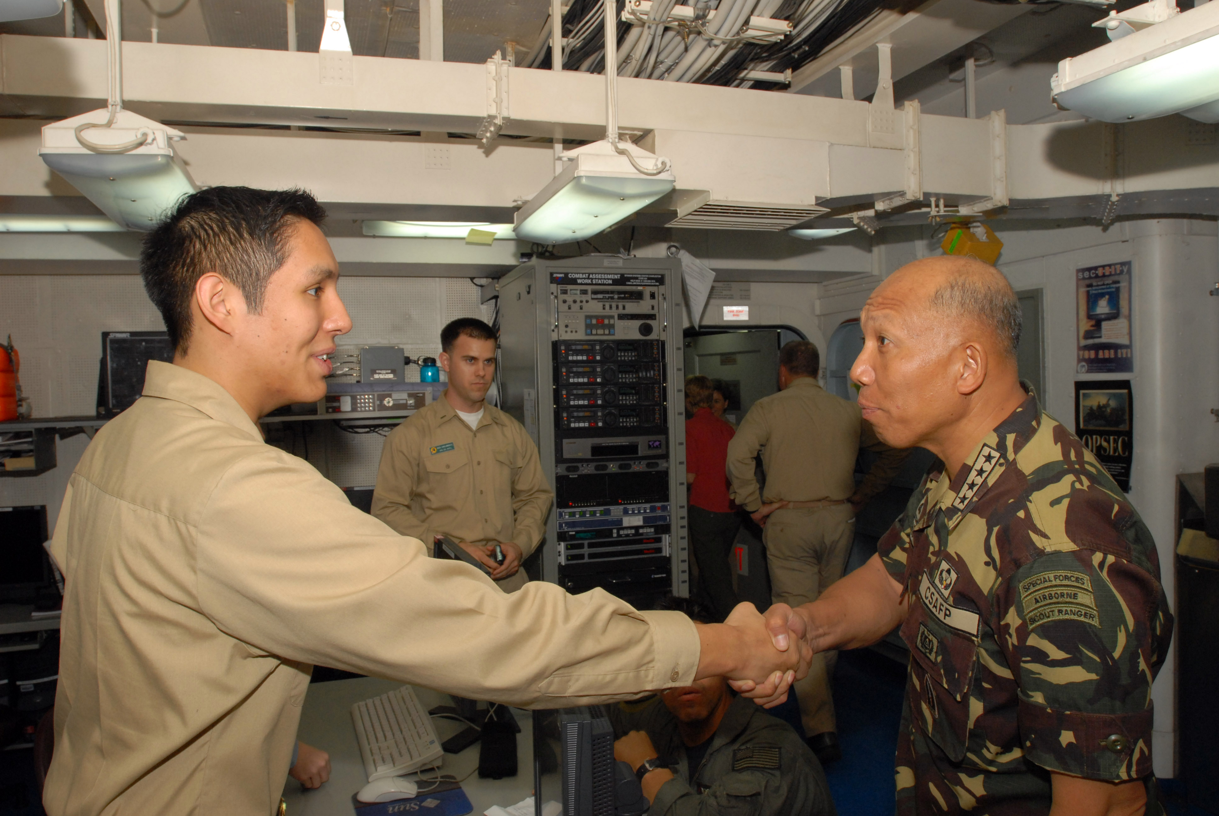 PACIFIC (June 29, 2008) Armed Forces of the Philippines, Chief of Staff, Gen. Alexander B. Yano shares a handshake with Lt.j.g. Eduardo Vargas. Gen. Yano flew aboard USS Ronald Reagan (CVN 76) along with the U.S. Ambassador to the Philippines Kristie Kenney to thank the crew for their participation in the Philippine Relief effort. At the request of the government of the Republic of the Philippines, Reagan is off the coast of Panay Island providing humanitarian assistance and disaster response in the wake of Typhoon Fengshen. Reagan and other U.S. Navy ships are operating in the 7th Fleet area of responsibility to promote peace, cooperation and stability. U.S. Navy photo by Mass Communication Specialist 3rd Class Gary Prill (Released)